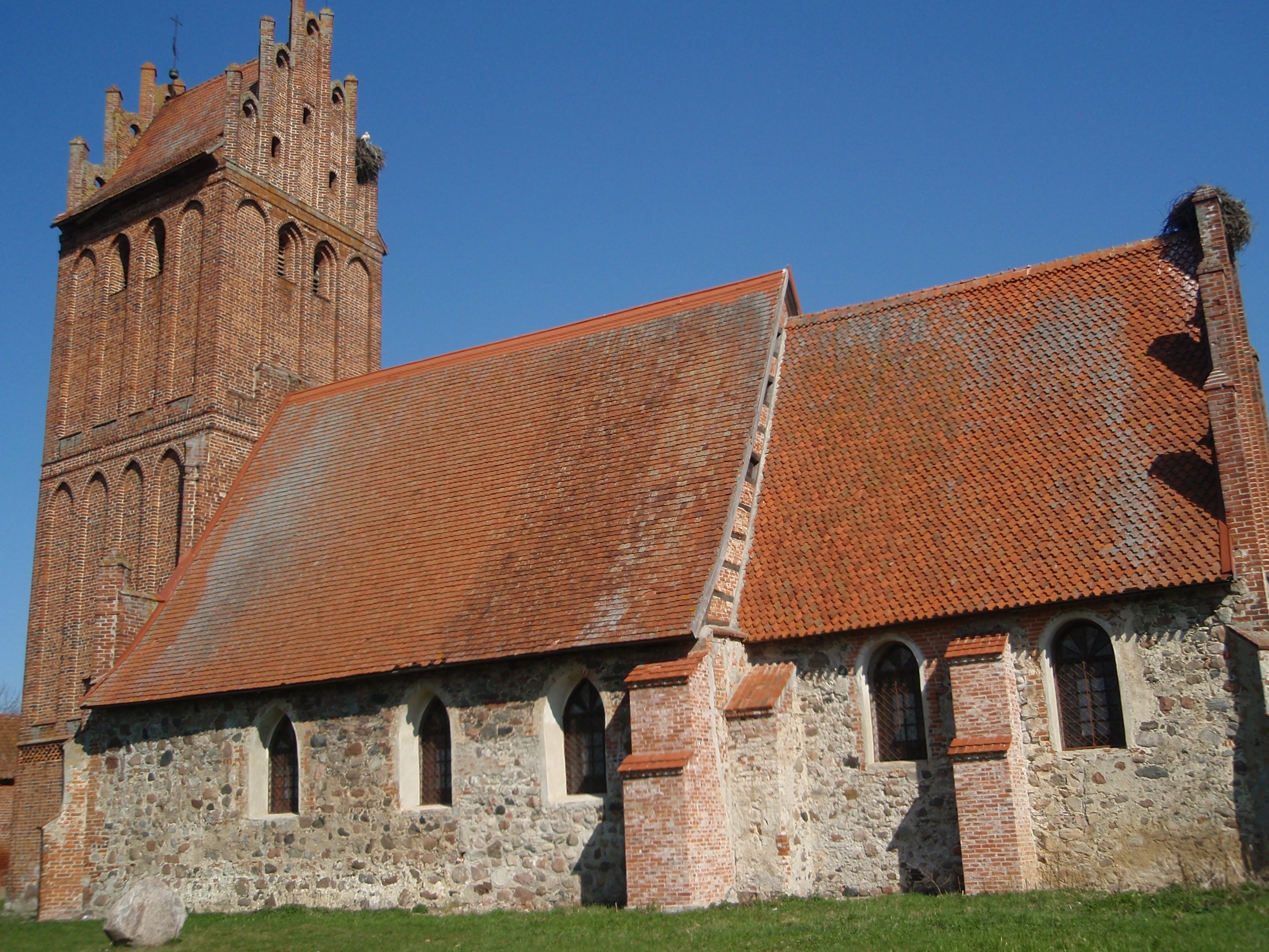 Church in the village Muehlhausen in Kaliningrad Oblast